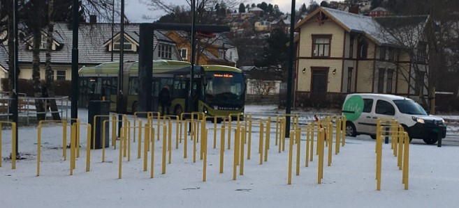 Heuliez Electric Bus at Nidarø Arena in trondheim